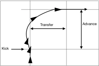 Draaicirkelproef